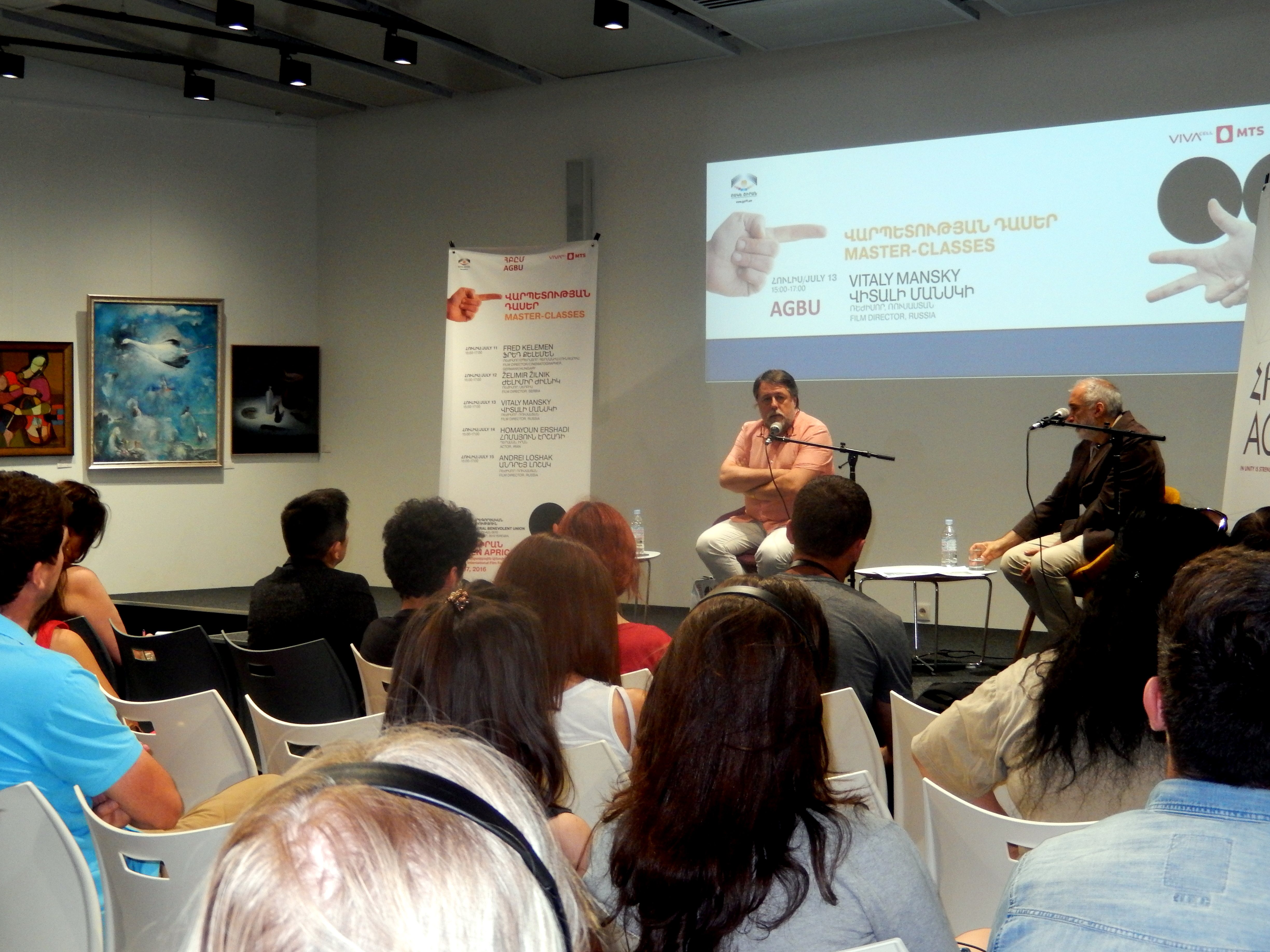 Master Class with Vitaly Mansky in Yerevan during Golden Apricot Yerevan International Film Festival